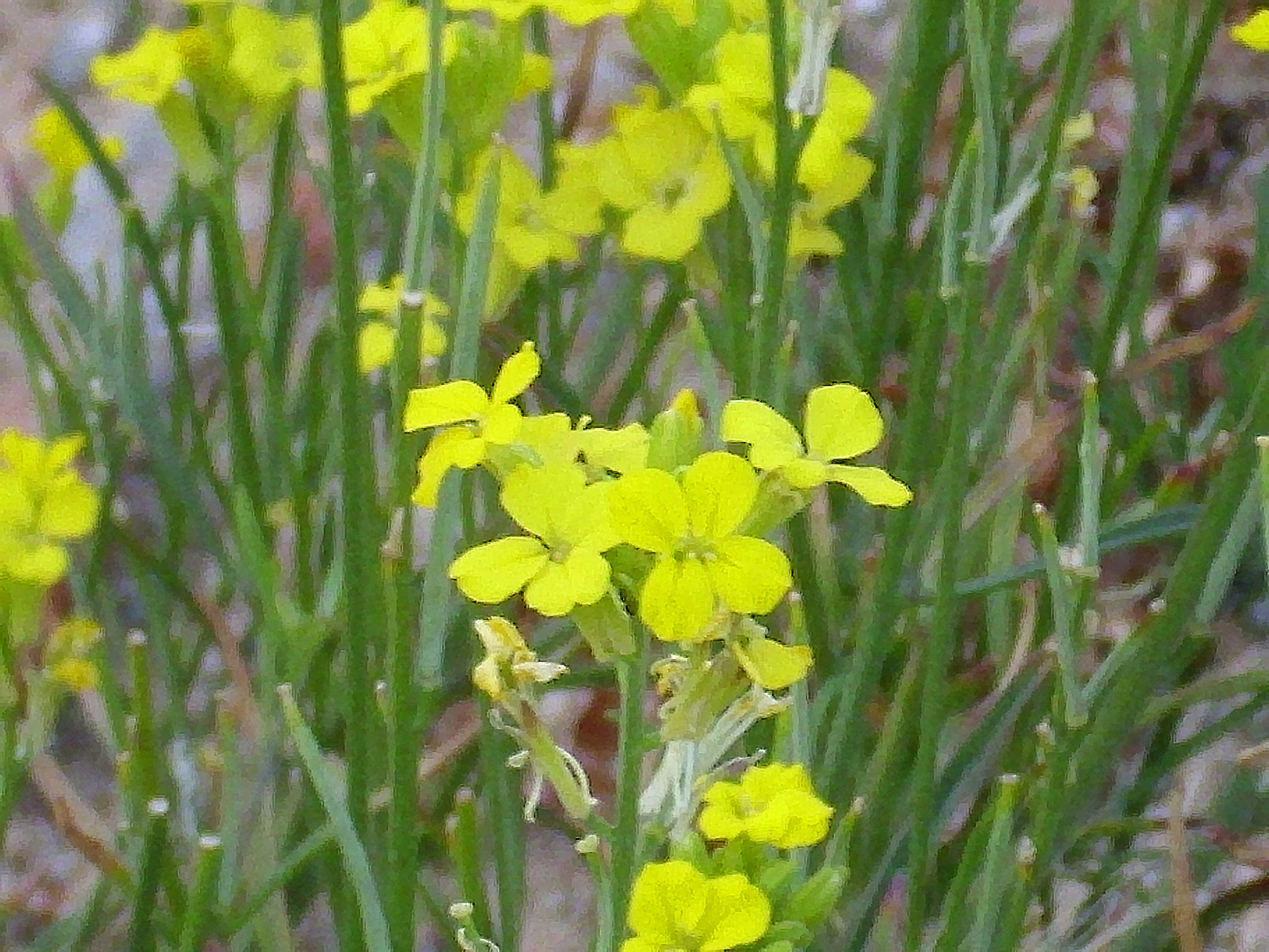 Erysimum nevadensis, close up, Sierra Nevada, Spain